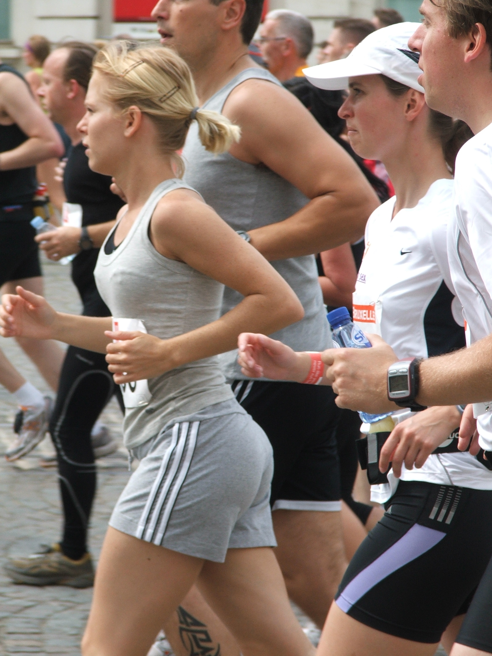 People running at the 2007 20 kilometer road race through Brussels.